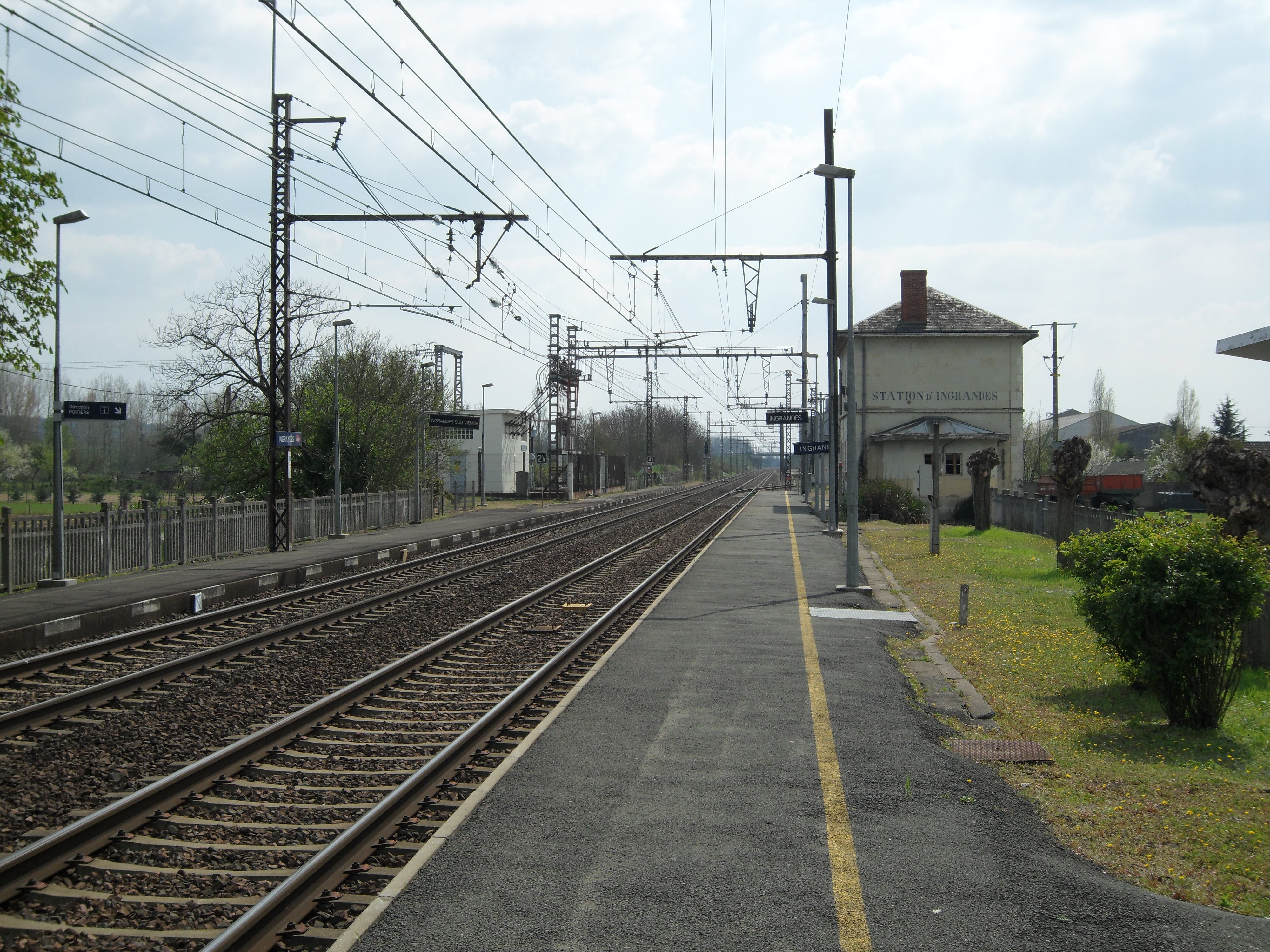 View towards Poitiers of the station platforms of Ingrandes-sur-Vienne.